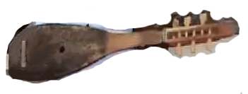 Gabusi